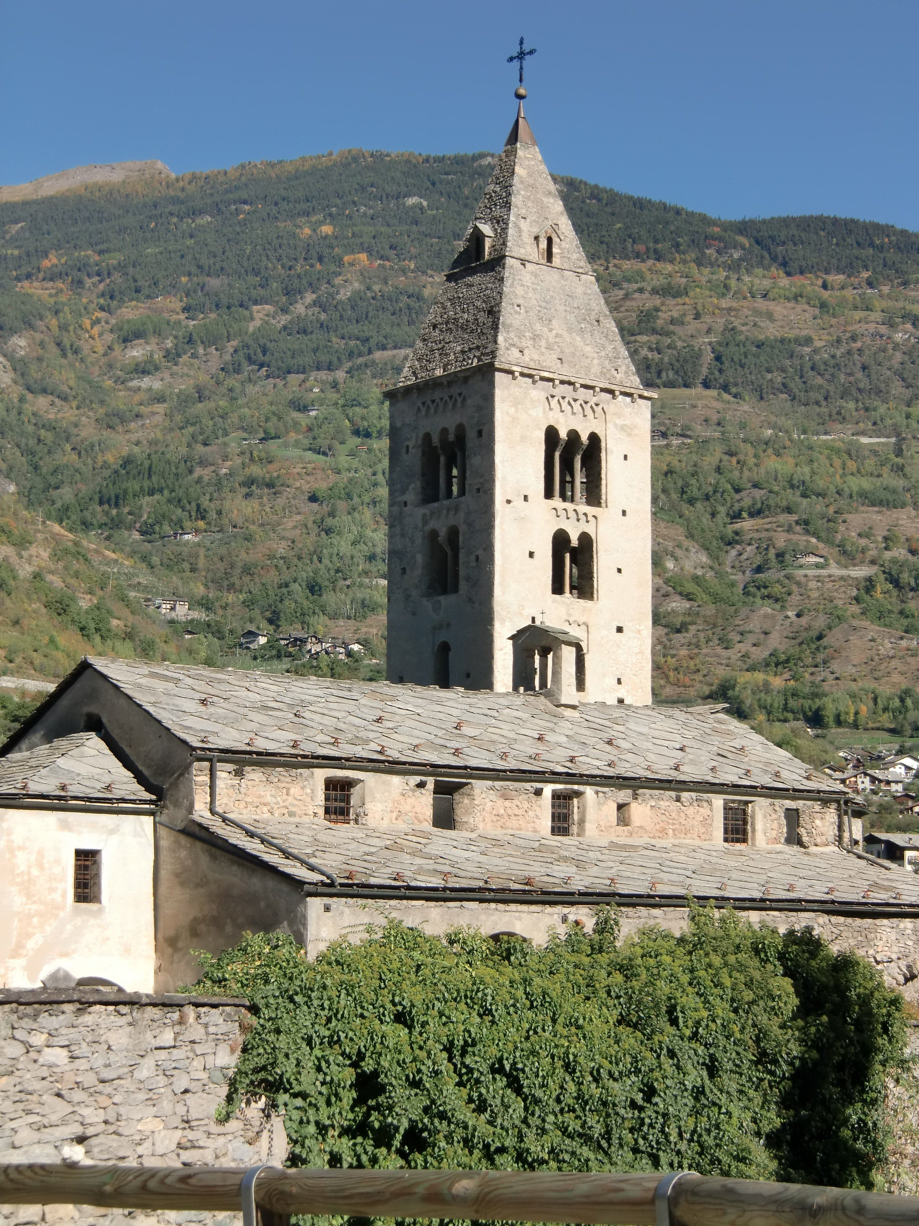 Cemetery church dedicated to "Santa Maria", Villeneuve, Aosta Valley